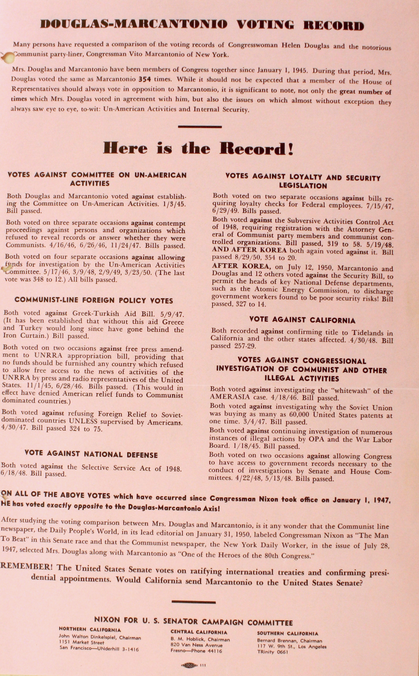 Flyer/handout for Nixon for Senate campaign, 1950. Both sides examined, no copyright notice.